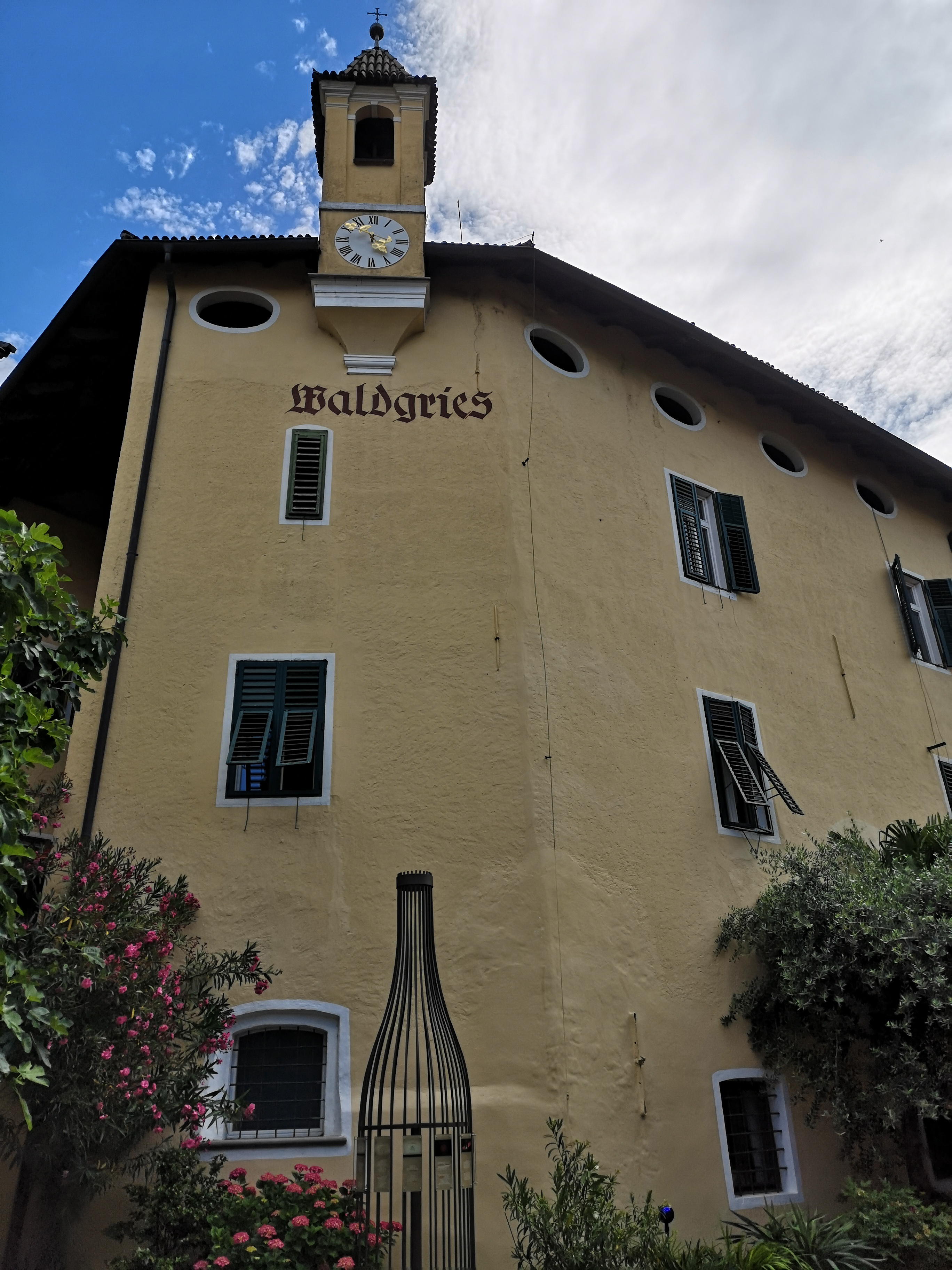 Ansitz Waldgries in St Justina bei Bozen Hauptgebäude